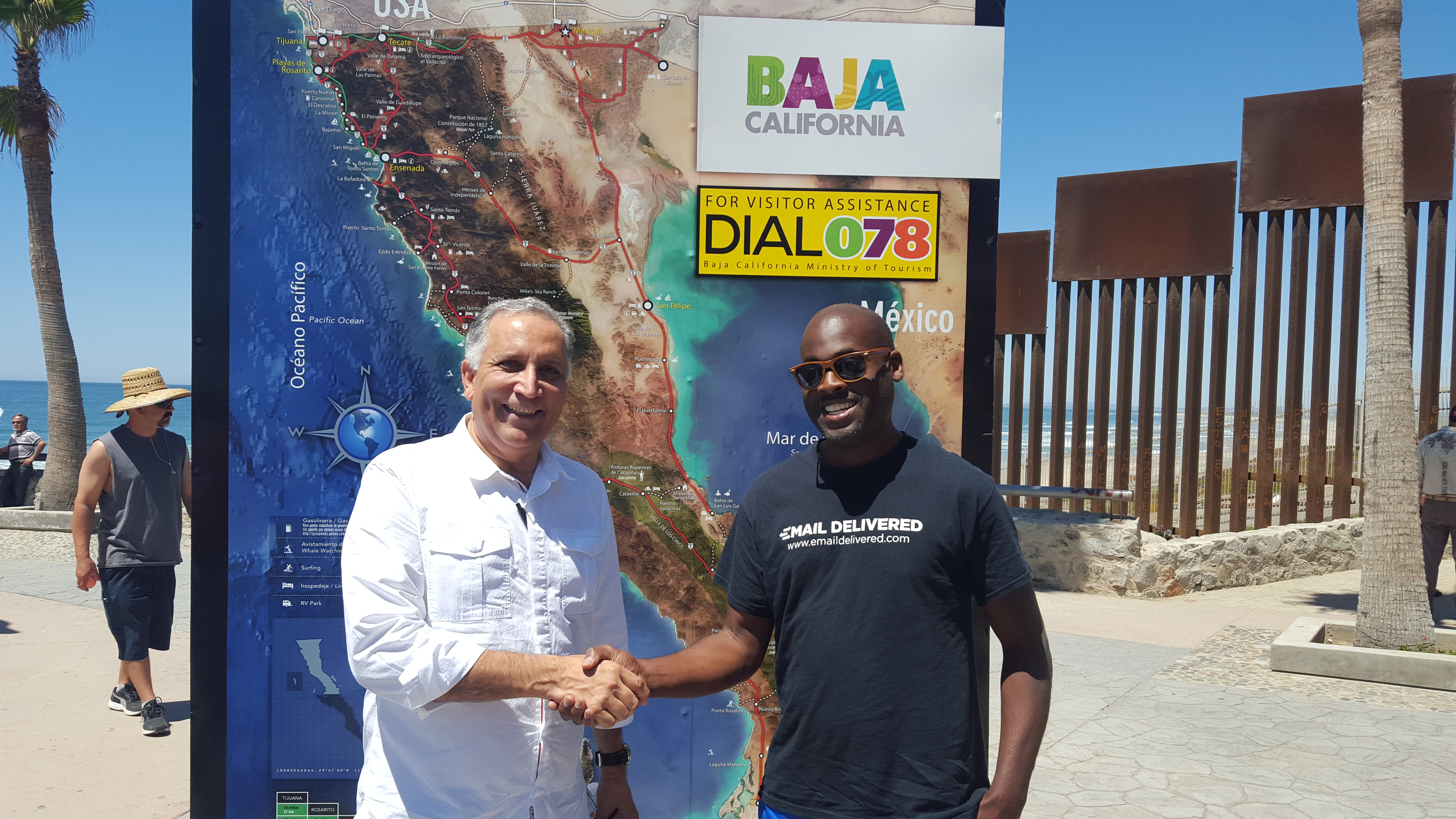 Baja Governor Candidate Hector Osuna Jaime to Start Silicon Valley in Baja California